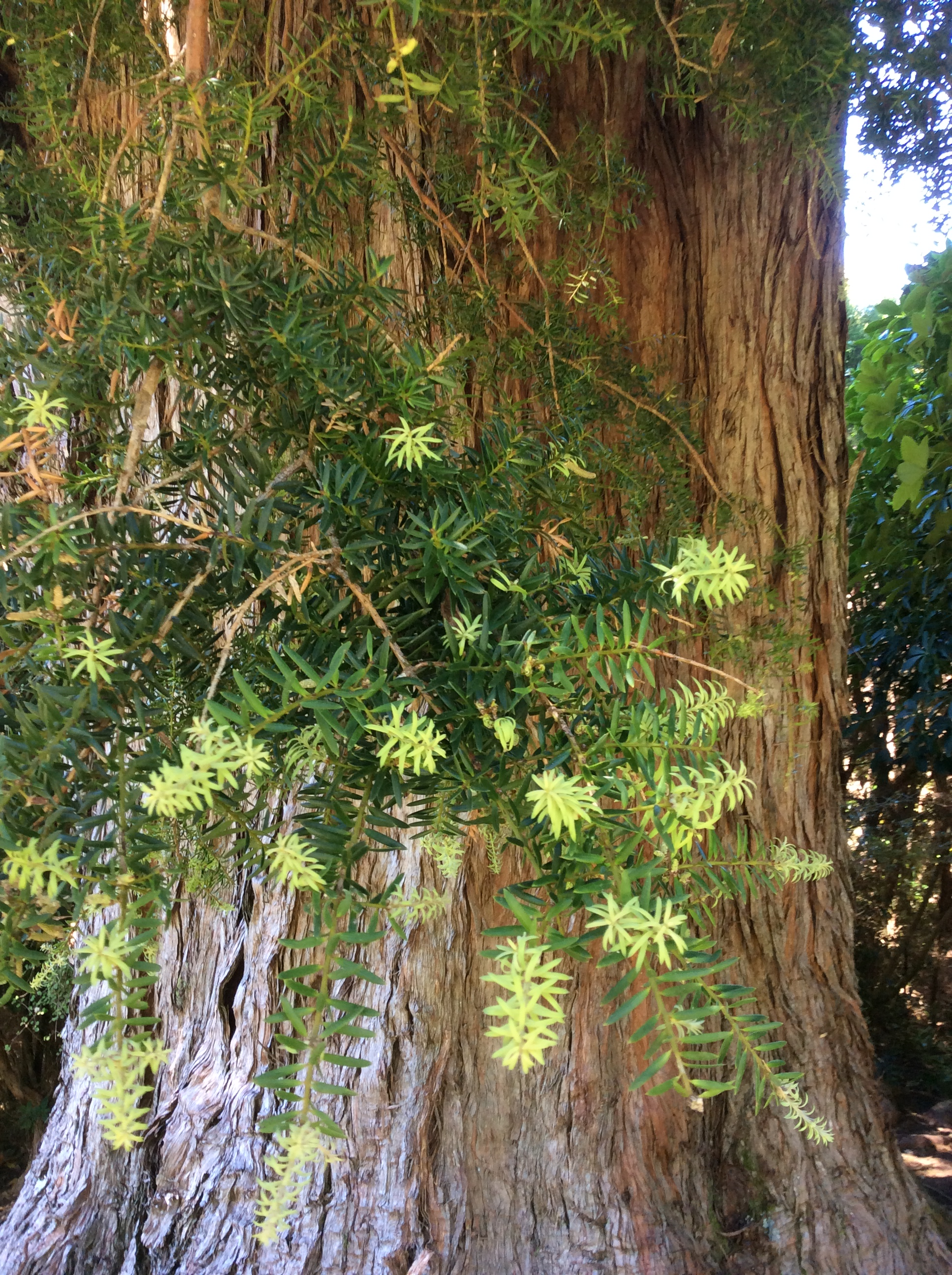 Needles and bark of Podocarpus hallii (= Podocarpus laetus, Podocarpus cunninghamii), Hinewai Reserve, Banks Peninsula, South Island, New Zealand. This tree species is endemic to NZ.